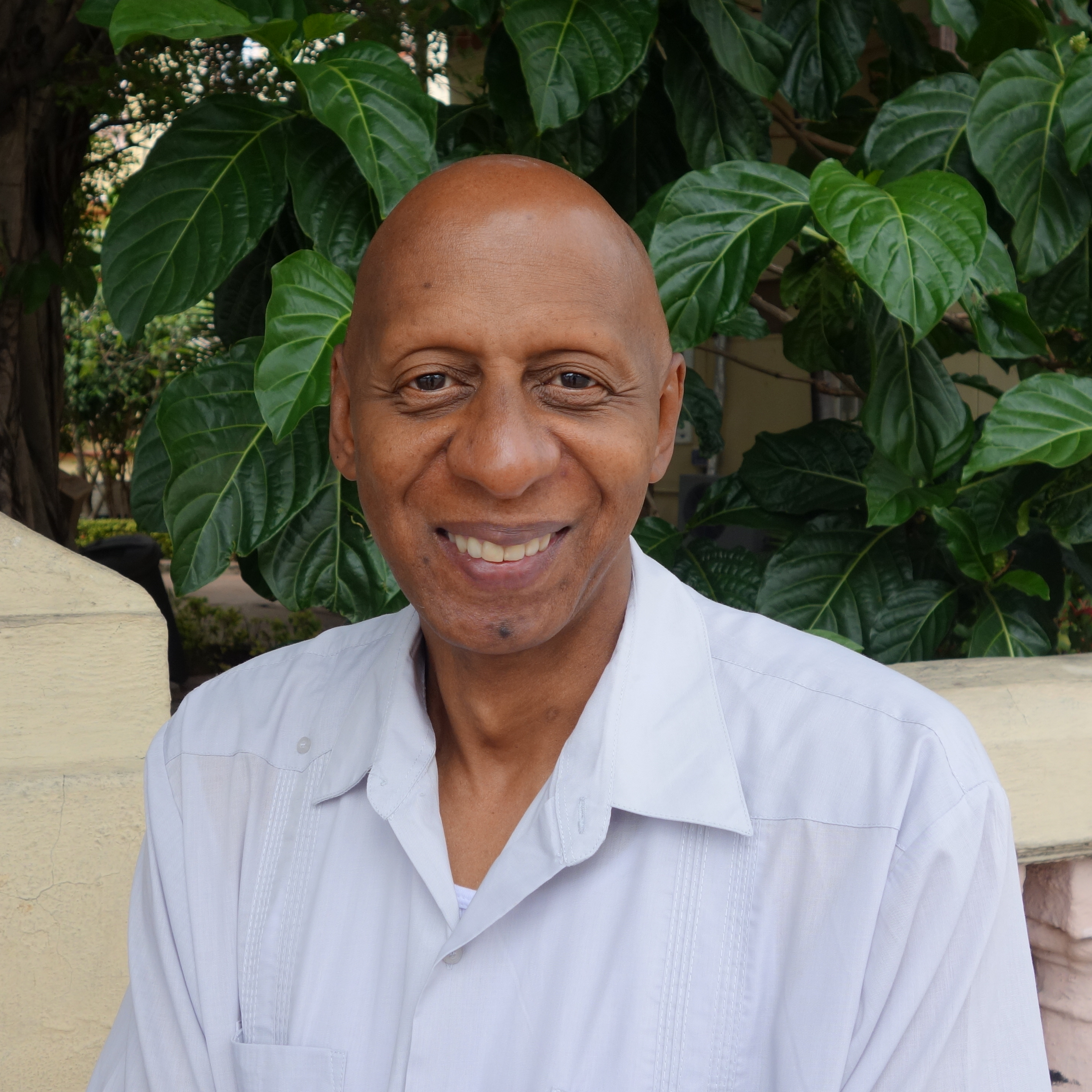 Guillermo Fariñas, March 2014 in Havana